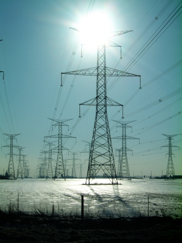 Hydro One power lines in Woodbridge, Ontario Canada. Taken between Hwy 27 and Huntington Rd on Langstaff Rd facing south towards hwy 7.